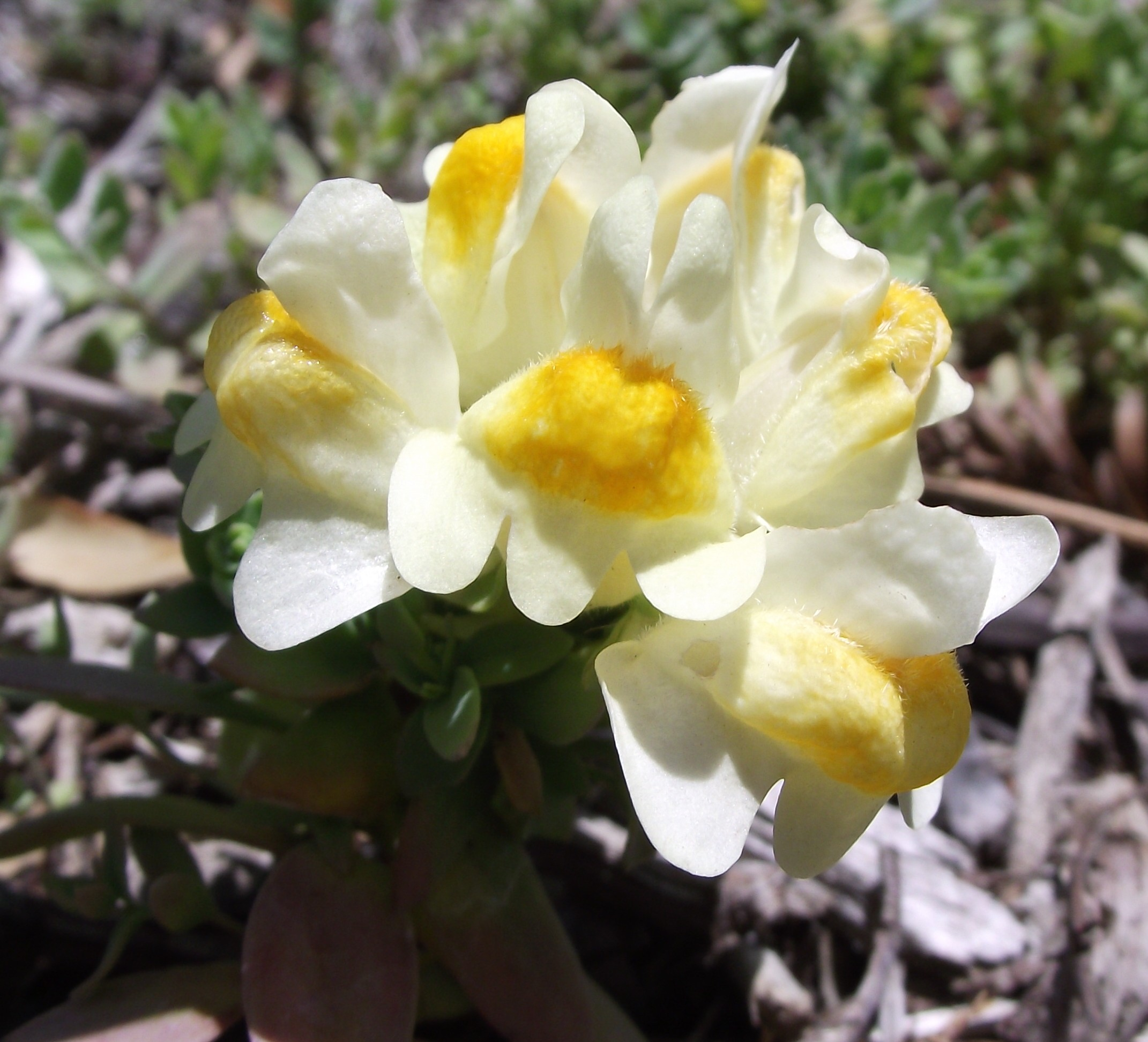 Linaria japonica in the UC Botanical Garden, Berkeley, California, USA. Identified by sign.